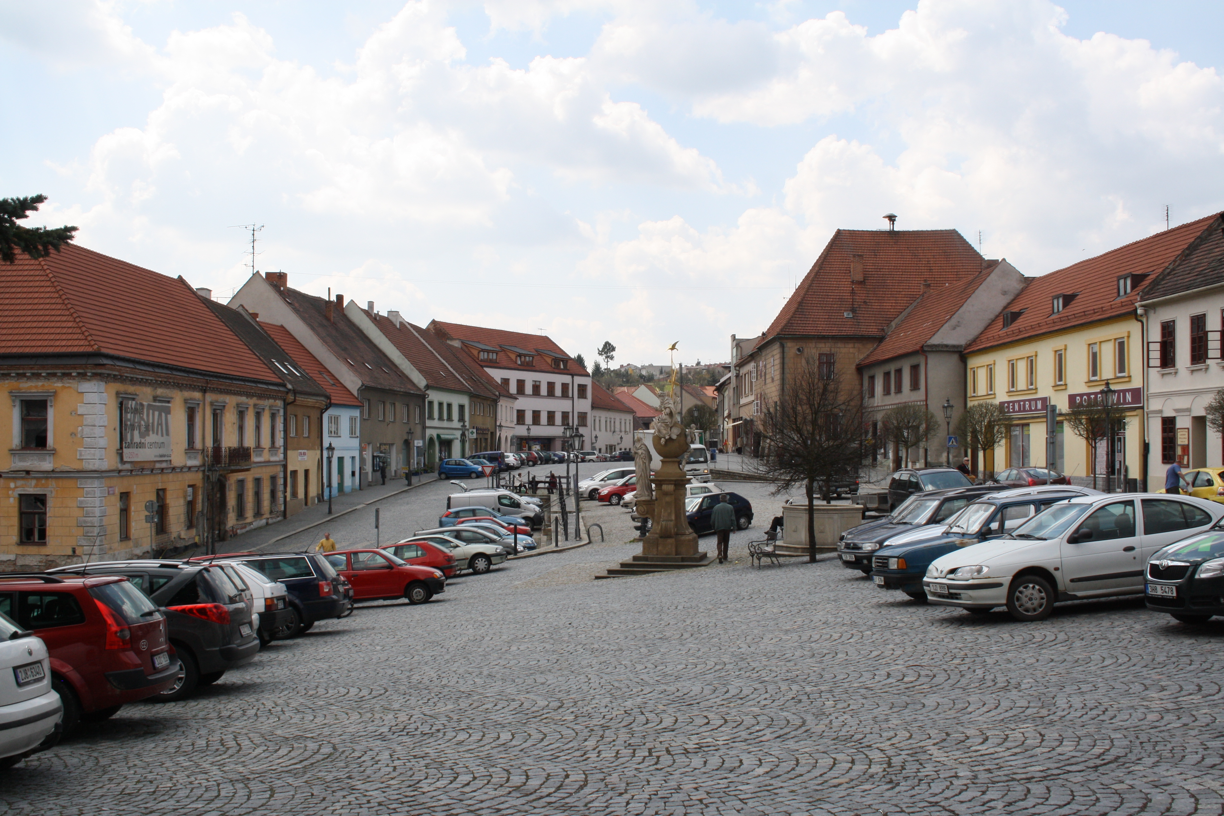 Masaryk square southview in Náměšť nad Oslavou.